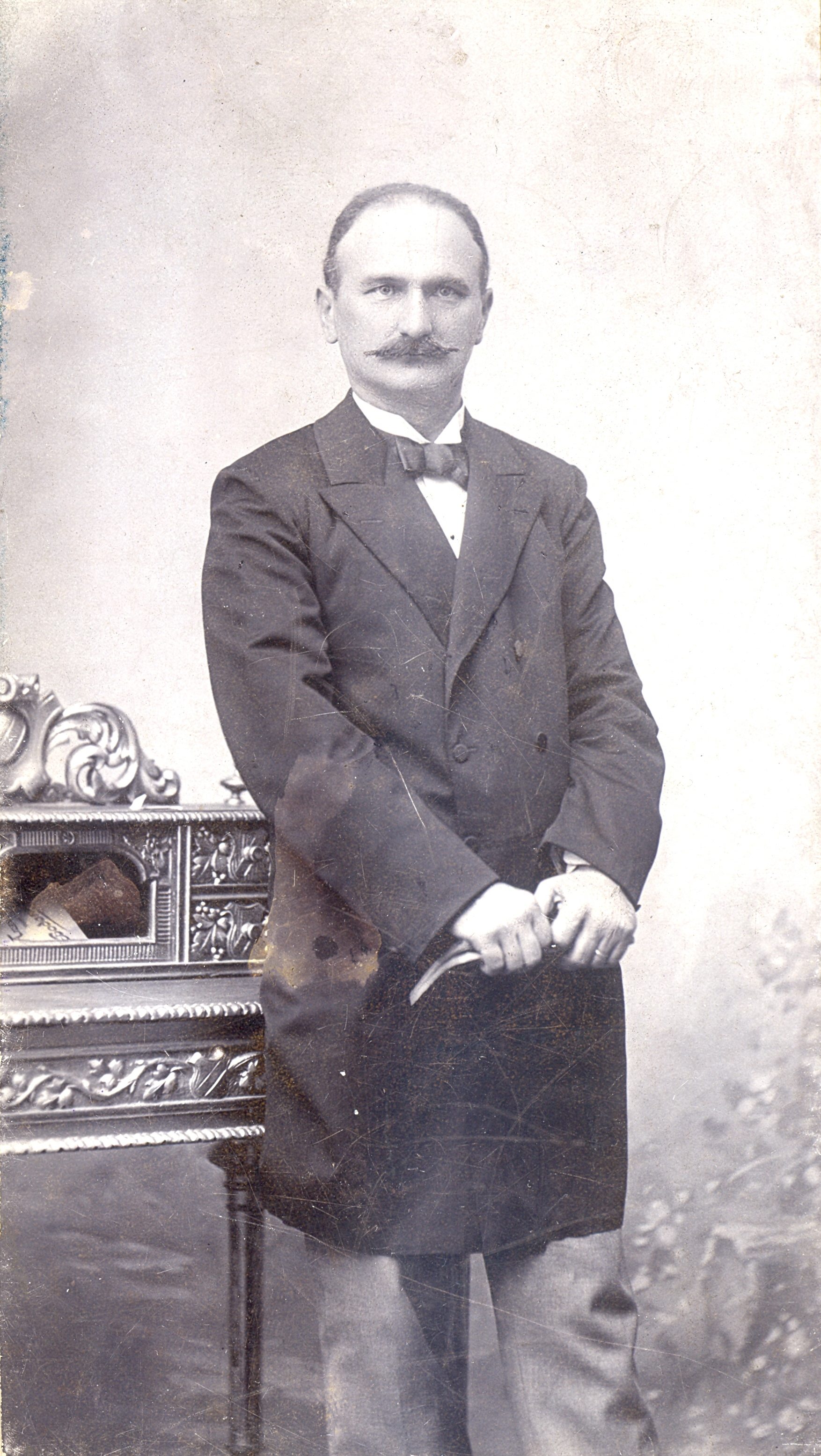 Photograph of Đorđe Magarešević (1857-1931), Serbian professor and philologist, inventory number 779. Srpski (latinica): Fotografija Đorđa Magaraševića (1857-1931), profesora i filologa, inventarski broj 779.